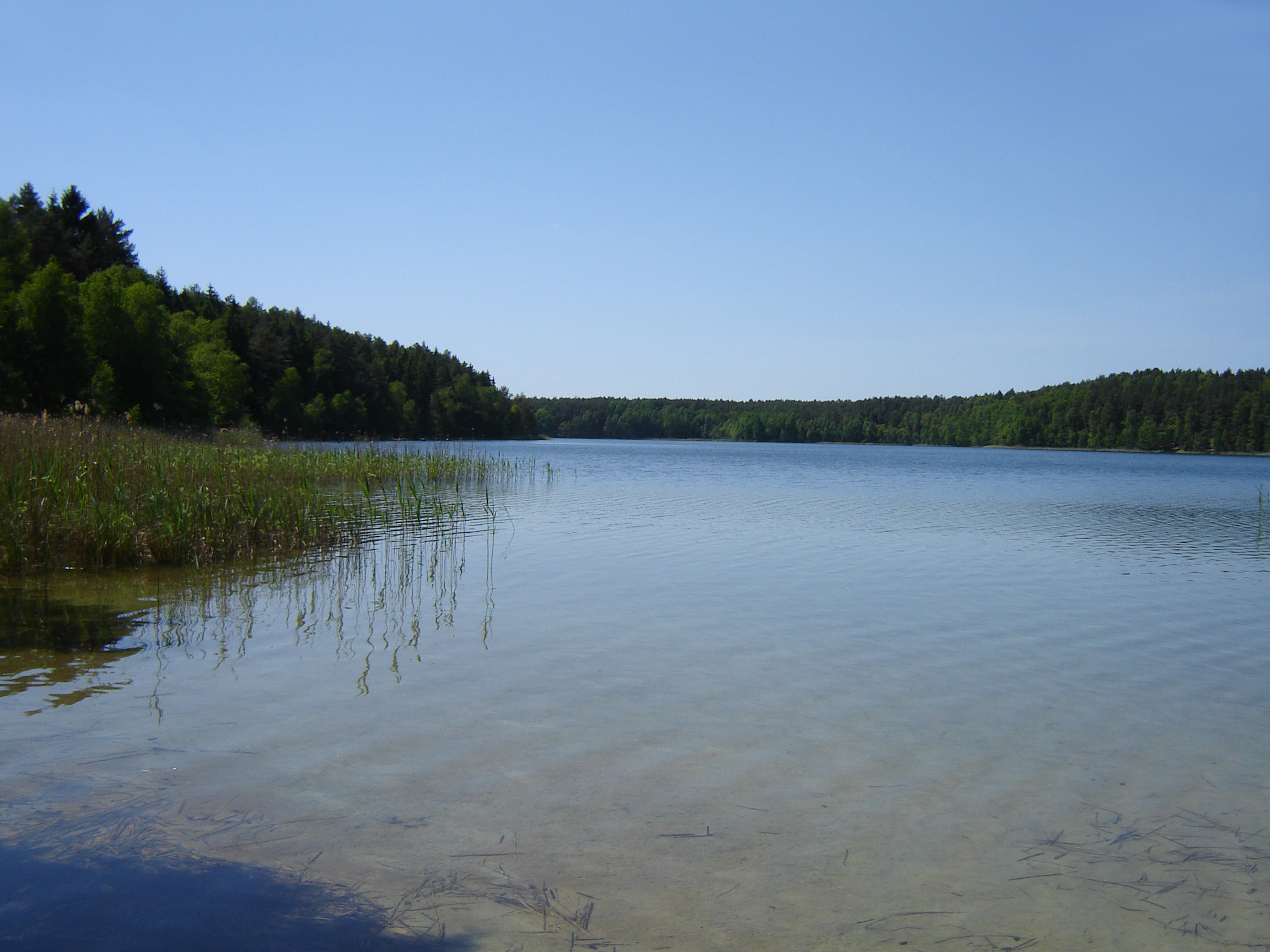 Lake Piaseczno (Wda Landscape Park).